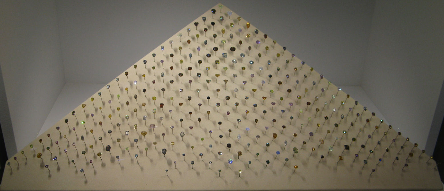 Aurora Diamond Collection photographed under natural light. This is the set of 296 diamonds as exhibited in the Natural History Museum in London. It is the most comprehensive natural colour diamond collection in the world.